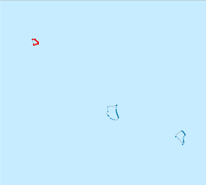 Atafu and Tokelau